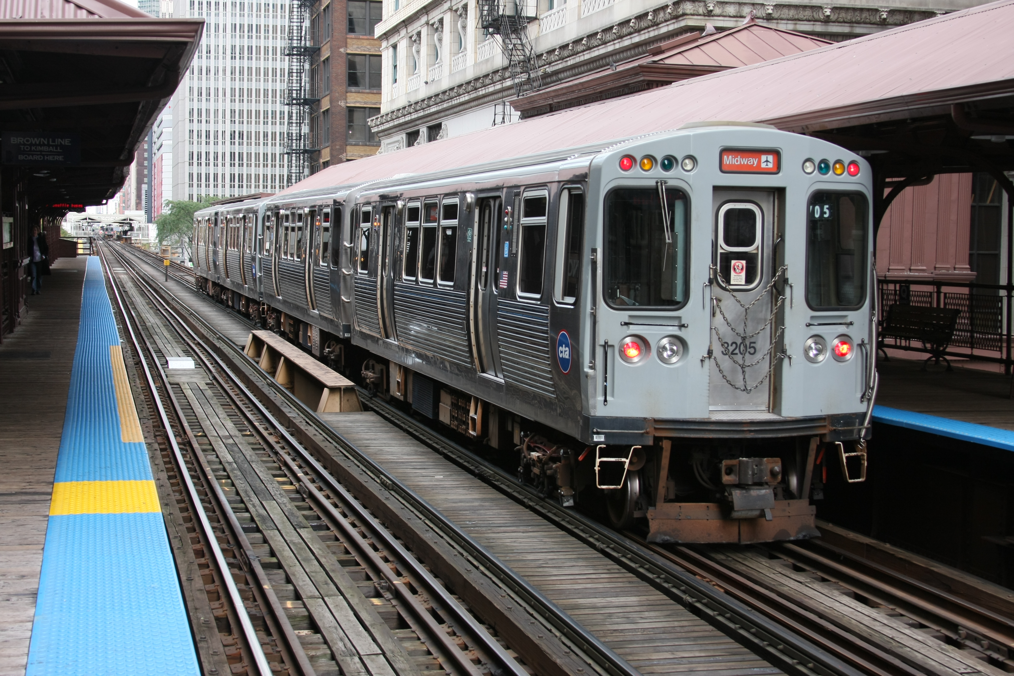 A four-car 3200 series 'L' train assigned to the Orange Line is stopped at Quincy in the Chicago Loop.